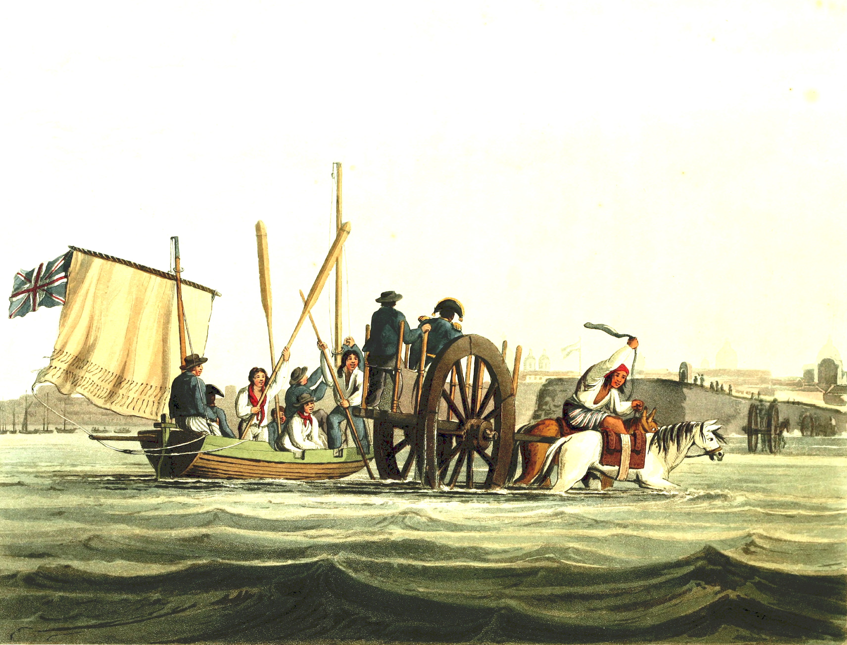 There was no safe pier for landing passengers at Buenos Aires until 1855. Ships stood out in a channel in the shallow River Plate and passengers were conveyed ashore by boat and, in the last stage, horse and cart. This watercolour depicts a visiting British admiral. From Picturesque illustrations of Buenos Ayres and Monte Video, consisting of twenty-four views: accompanied with descriptions of the scenery and of the costumes, manners, &c. of the inhabitants of those cities and their environs by E.E. Vidal, Esq (Ackermann: London, 1820)